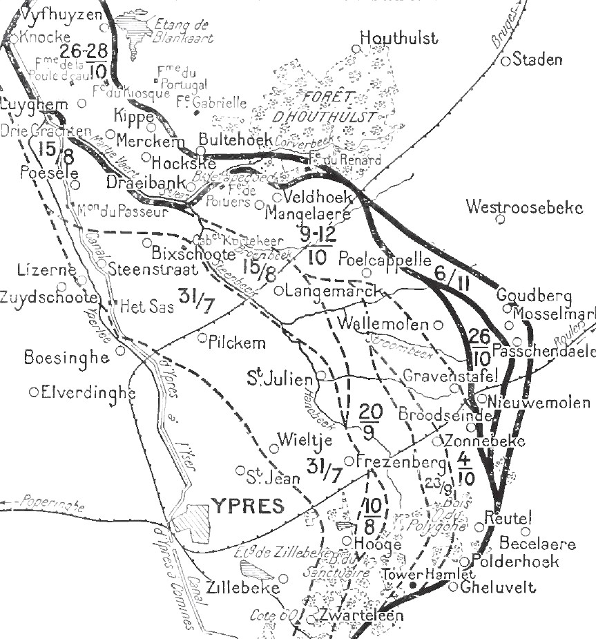 Ypres, Anglo-French front line 22 October - 6 November 1917